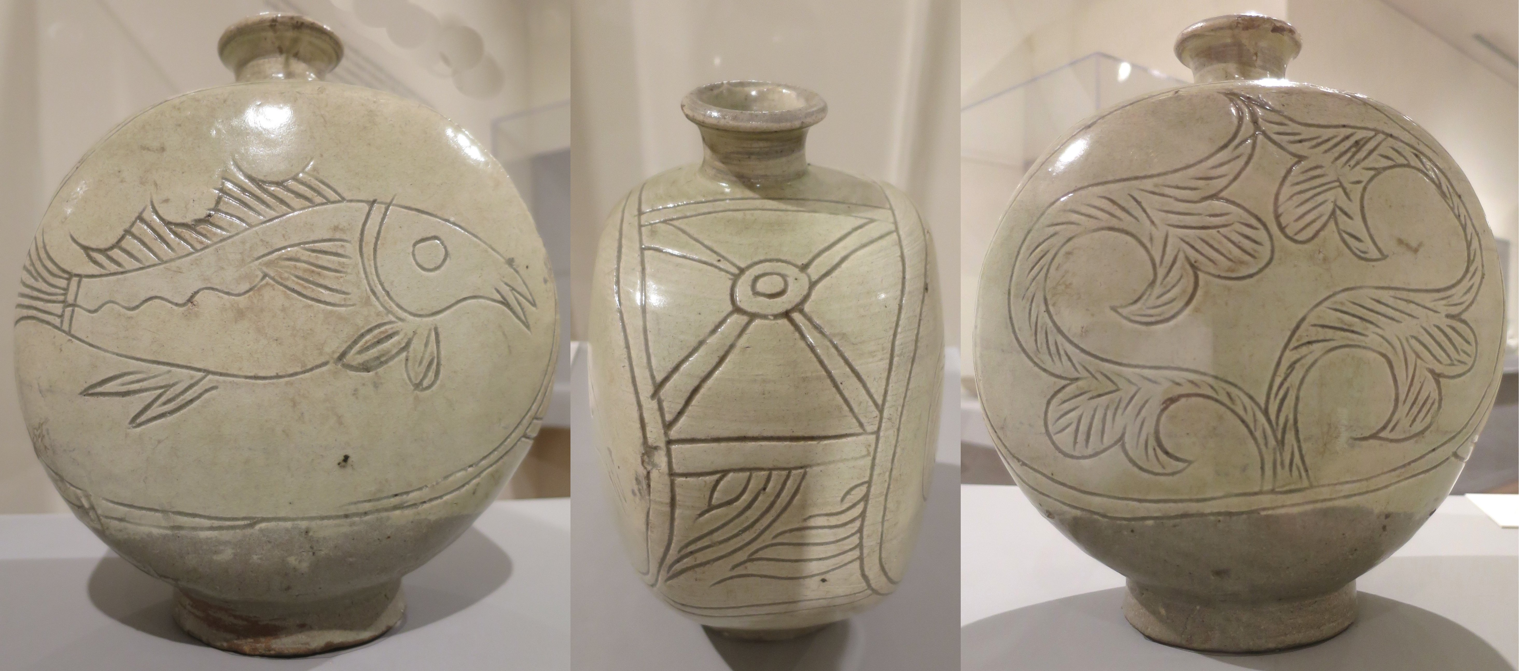 Buncheong ware flask bottle with fish design, Joseon dynasty, 15th century, stoneware with glaze and white slip inlay, Honolulu Museum of Art, accession 2522.1